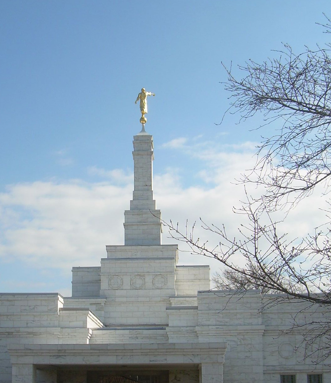 Nashville Tennessee Temple in Winter